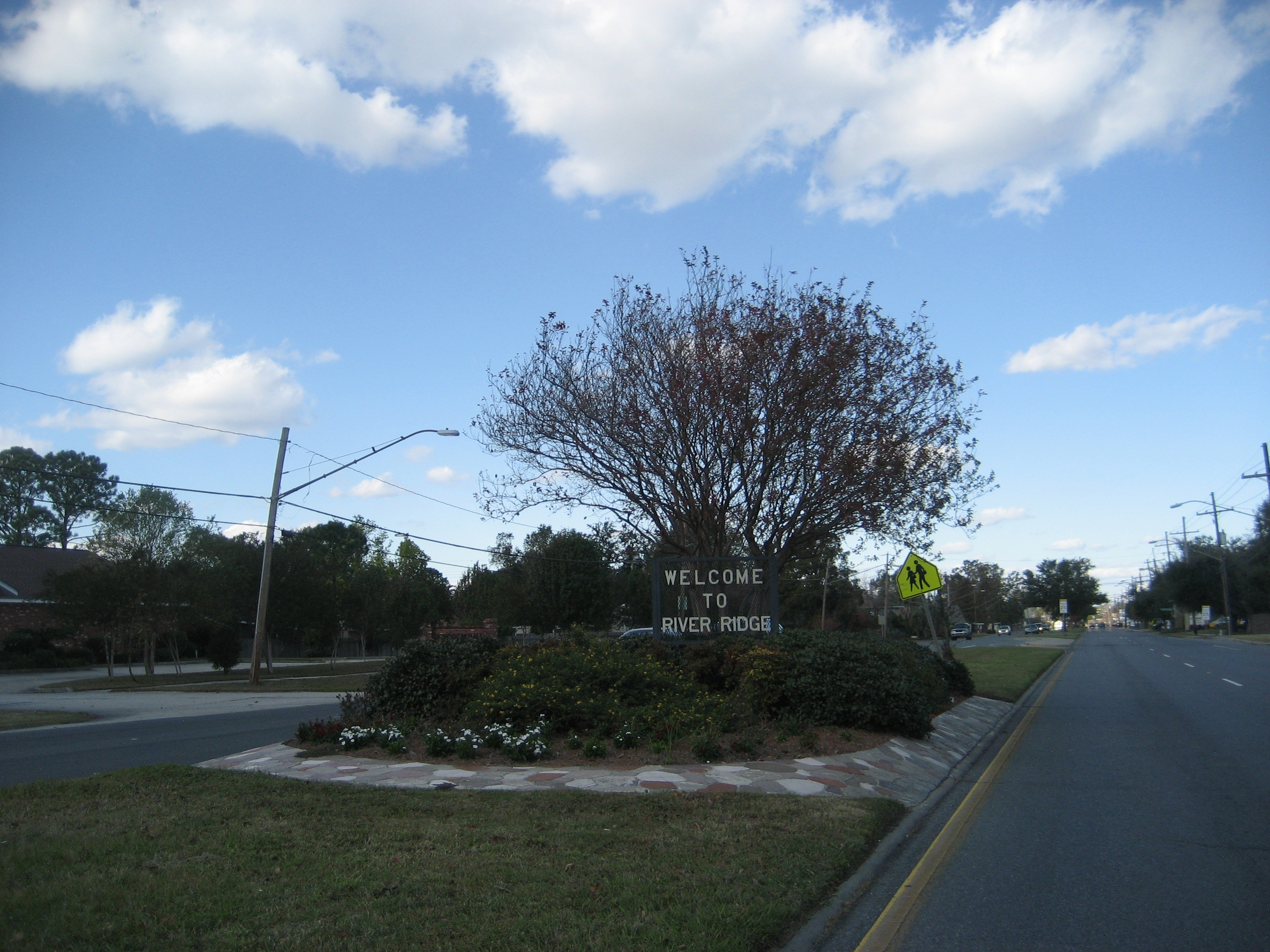 River Ridge, Louisiana. Welcome sign on Jefferson Highway at boundry with Harahan.